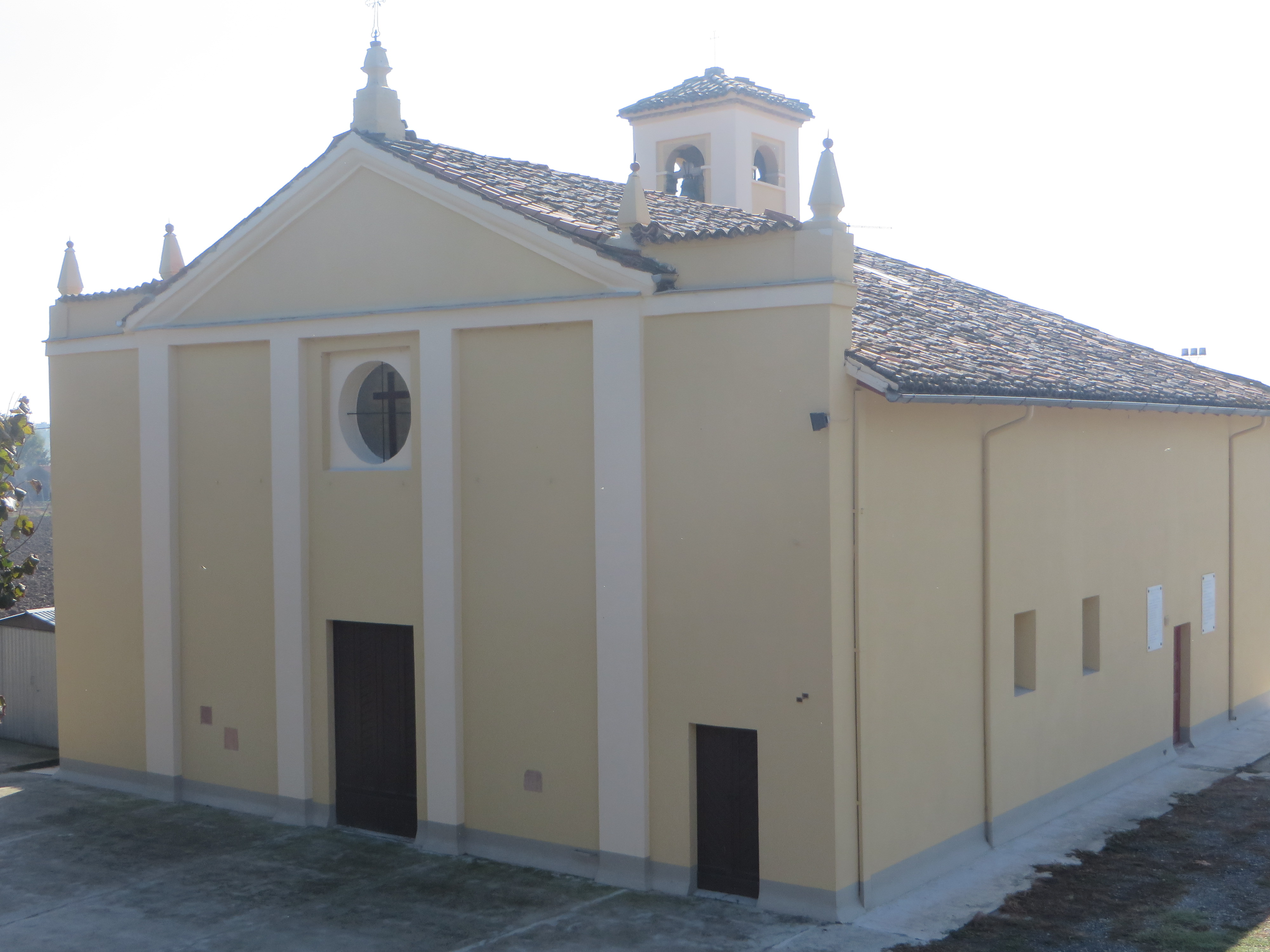 San Secondo Parmense Pizzo Church1